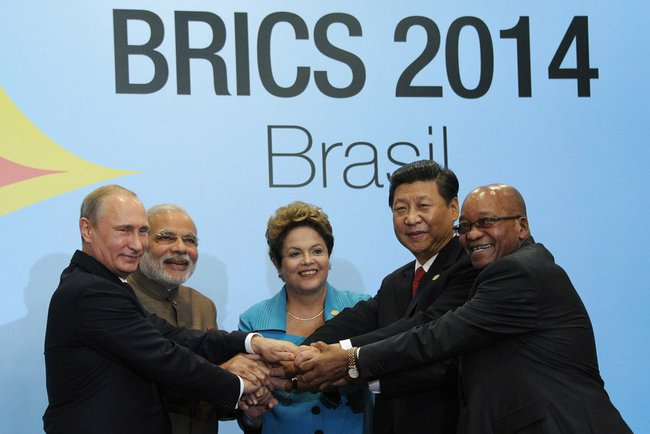 BRICS summit participants: President of Russia Vladmir Putin, Prime Minister of India Narendra Modi, President of Brazil Dilma Rousseff, President of China Xi Jinping, President of South Africa Jacob Zuma.